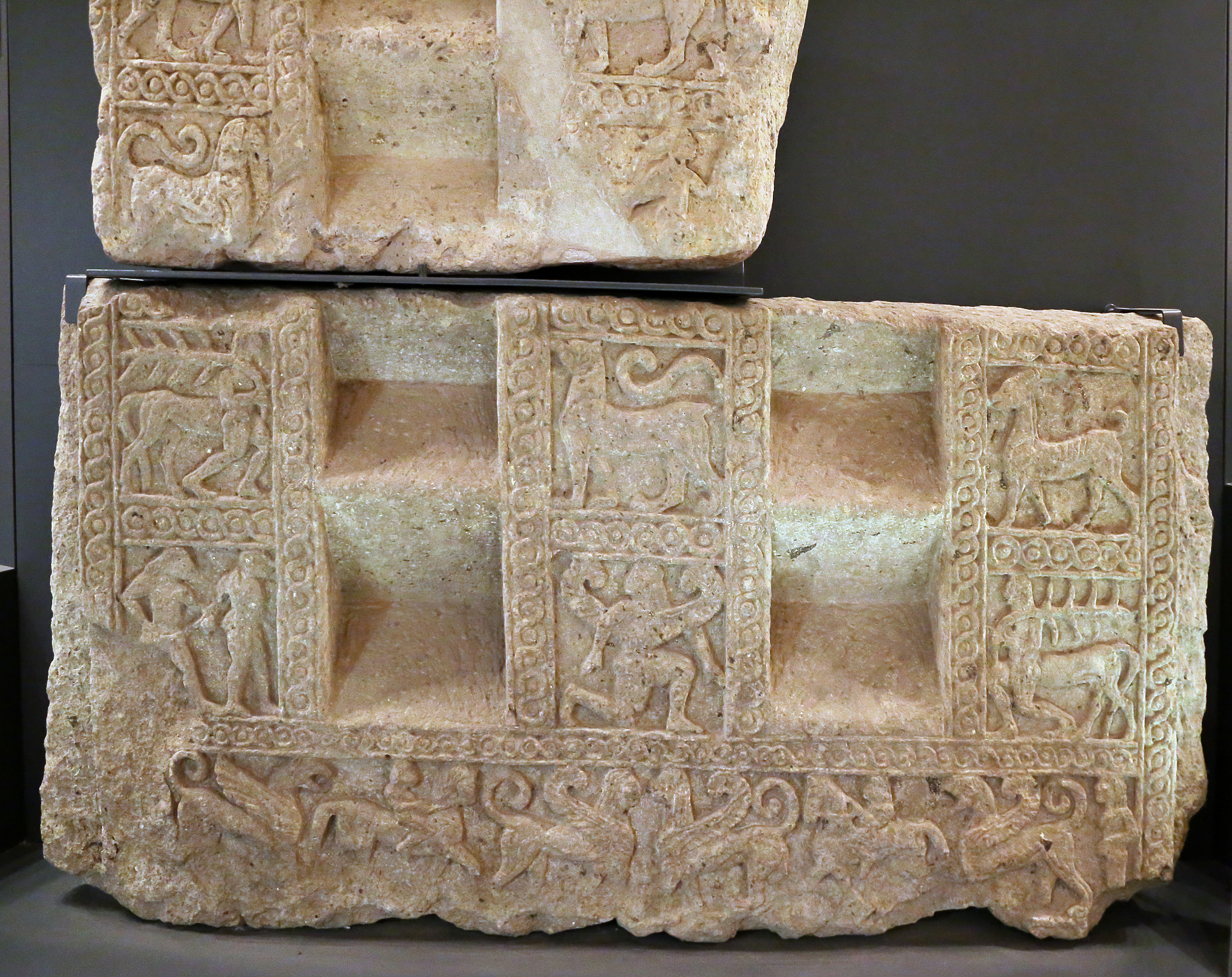 Etruscan antiquities the Museo archeologico nazionale (Tarquinia)